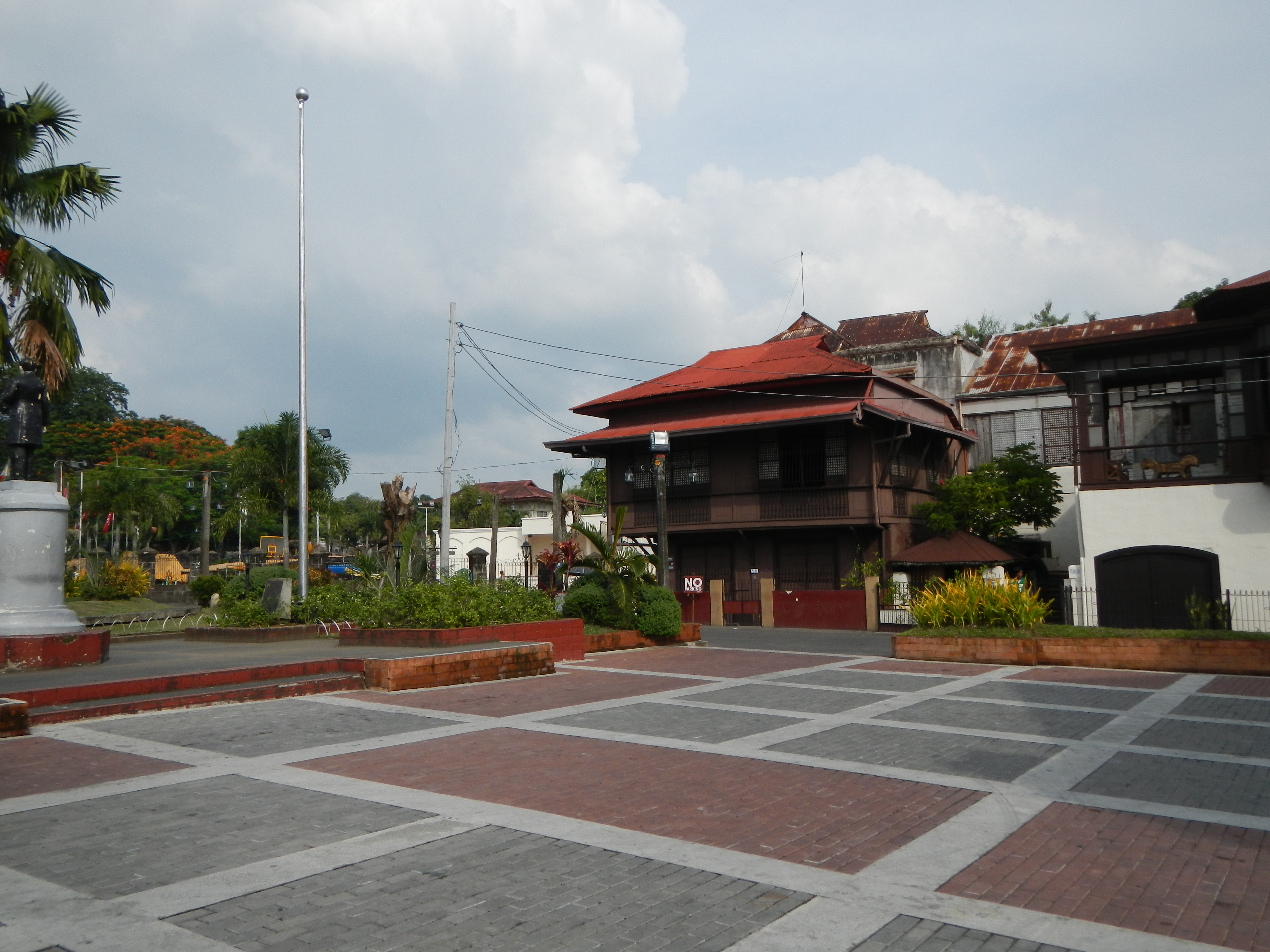 Heritage Town – 1572 Casa Real - Municipal Government of Taal, Escuela Pia - Taal Cultural Center, Taal Town Plaza & Basketball Court and the 1923 Rizal College of Taal/beside/adjacent - in front of the --- Basilica de San Martin de Tours (Taal)[1]Basilica de San Martin de Tours is a Minor Basilica in the town of Taal, Batangas in the Philippines, within the Archdiocese of Lipa. It is considered to be the largest church in the Philippines and in Asia, standing 96 metres (315 ft) long and 45 metres (148 ft) wide. St. Martin of Tours is the patron saint of Taal, whose fiesta is celebrated every November 11. It is under Metropolitan Archbishop Ramon Cabrera Argüelles of Lipa City, Batangas[2] It belongs to the [3]Roman Catholic Archdiocese of Lipa - Vicariate II: Vicariate of Saint John Mary Vianney. Taal, Batangas[4]Taal is a second class municipality in the province of Batangas, Philippines. According to the latest census, it has a population of 51,459 people in 8,451 households.